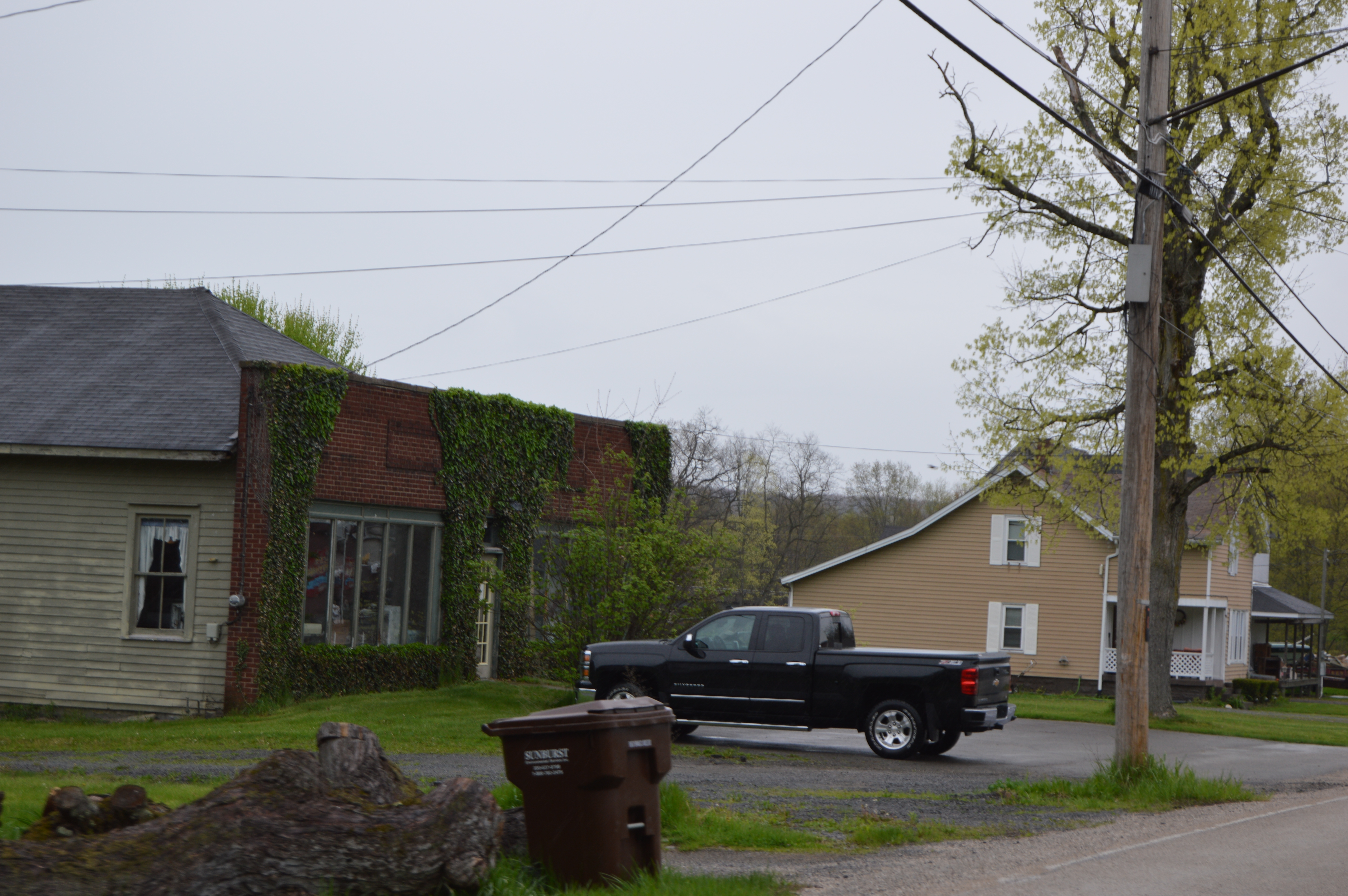 A commercial building and house on the northern side of State Route 609 in Orangeville, Ohio, United States.